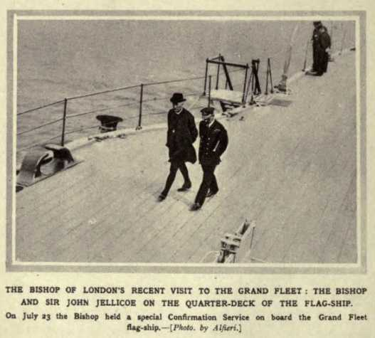 Press photograph of the Bishop of London (Arthur Winnington-Ingram) and Admiral Sir John Jellicoe on Jellicoe's flagship, 1916. Comment : Jellicoe's flagship was HMS Iron Duke.